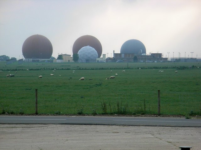 snookered! RAF Croughton.